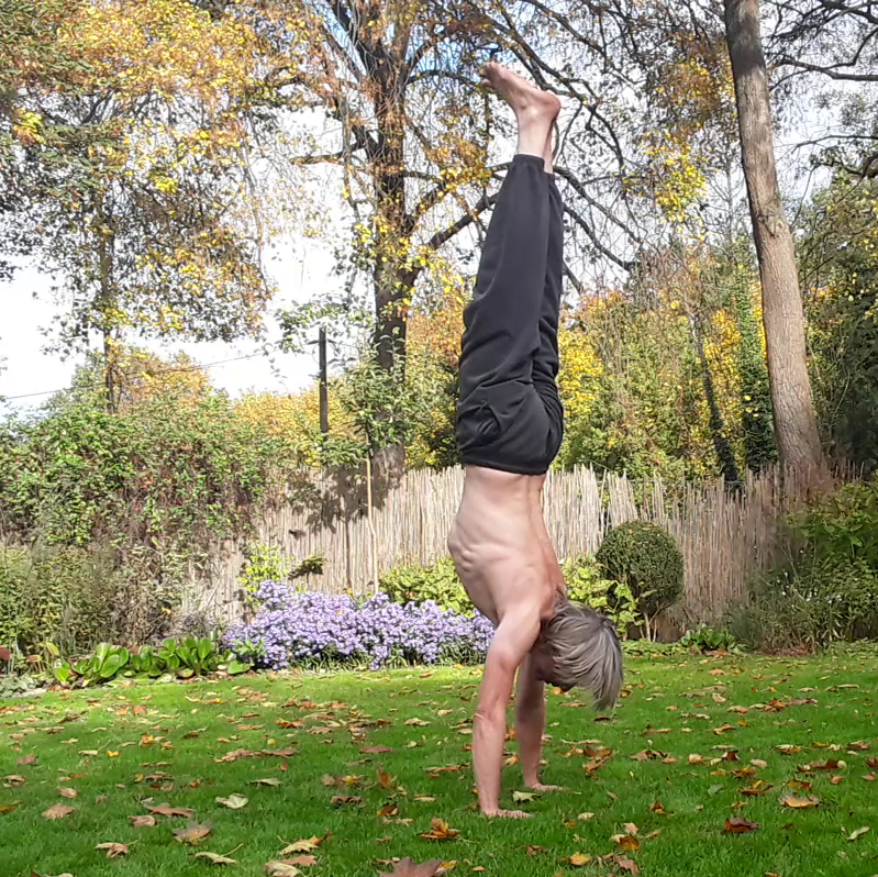 Man practicing handstand in a garden in autumn.